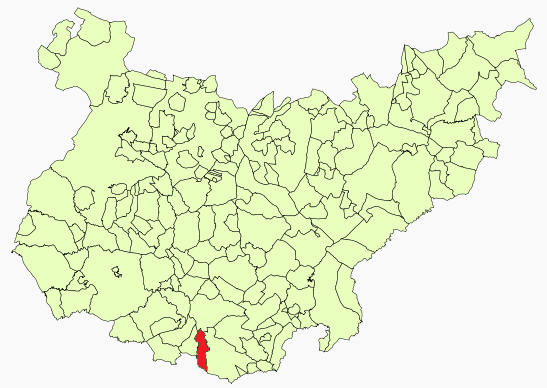 Calera de León